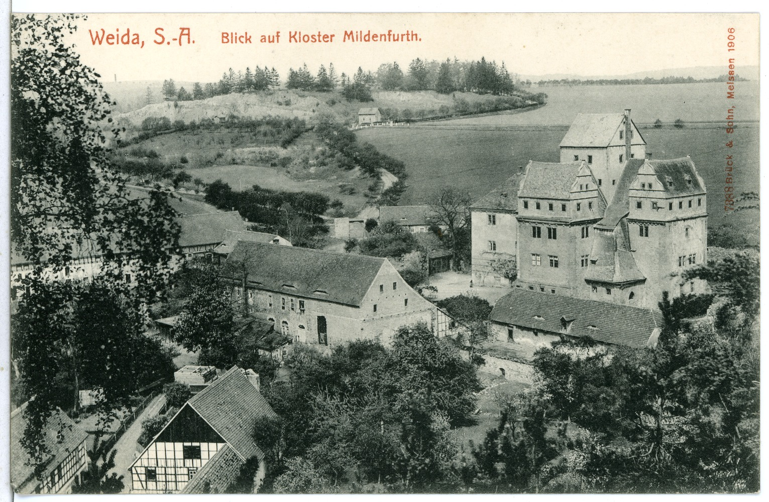 This postcard is from publisher Brück & Sohn in Meißen ( This postcard has a unique number 07388 and is available in a higher resolution at the publisher. This images was uploaded in a cooperation project between Wikipedians and the publisher.